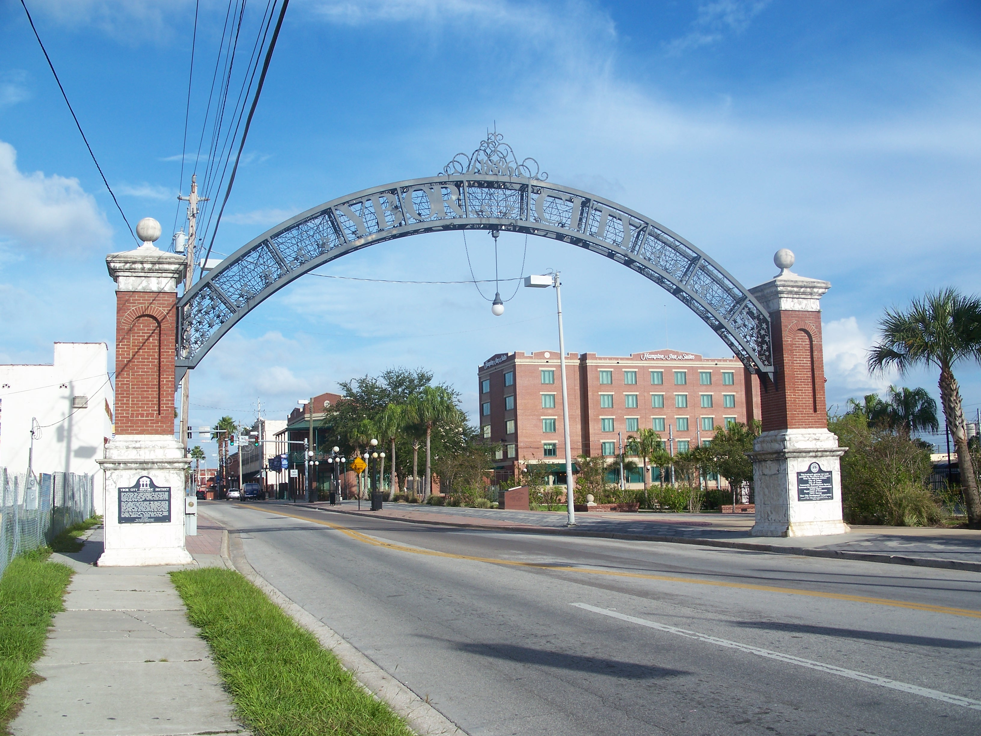 Entrance gateway into Ybor City, in Tampa, Florida